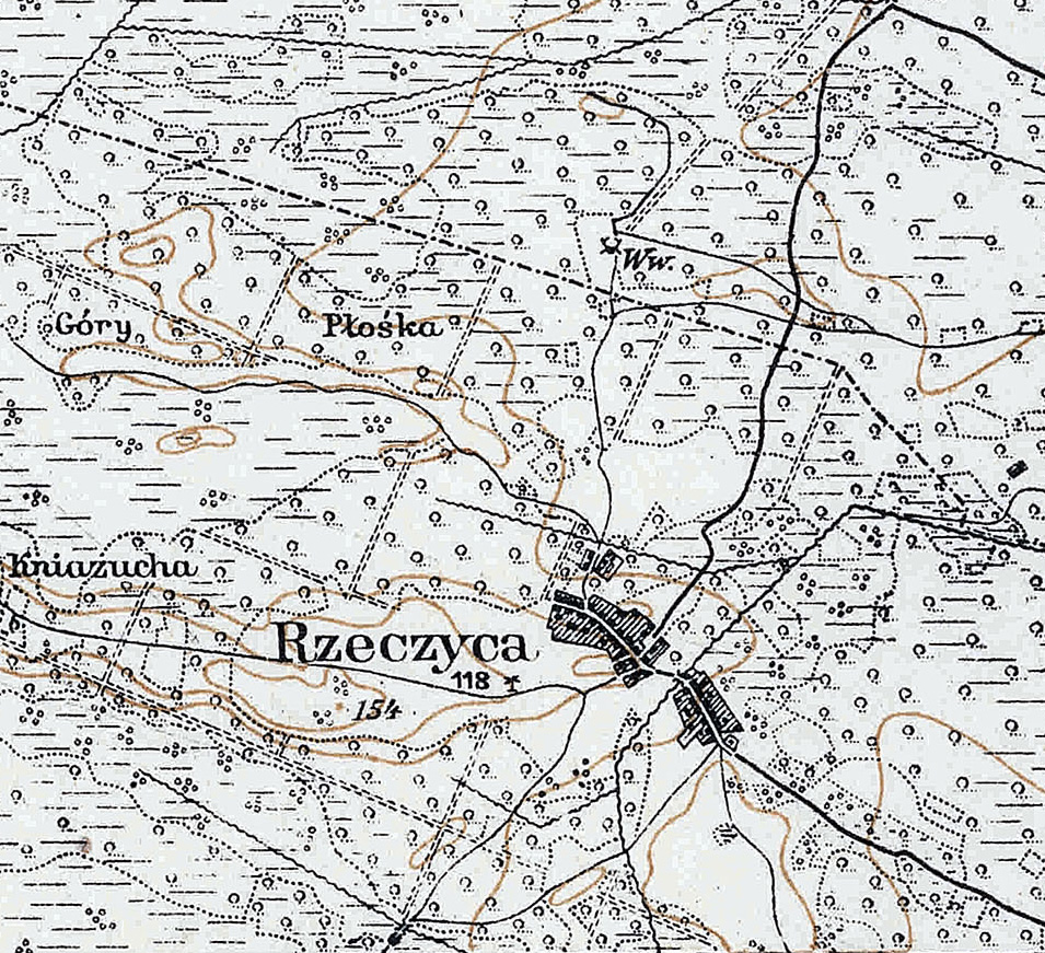 Richytsia on the map "Karte des Westlichen Russlands", T 34, 1917. According to Digital Repository of Scientific Institutes and Kujawsko-Pomorska Digital Library the map is in the public domain.